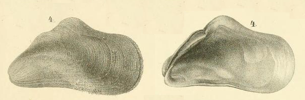 Modiolus auriculatus (Krauss, 1848), Mytilidae, Bivalvia, Mollusca